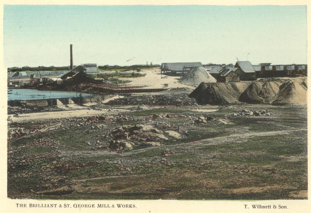 Brilliant and St. George Mill and works, Charters Towers, 1904.